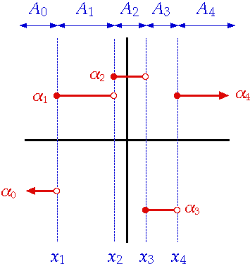 An example of a generic step function.